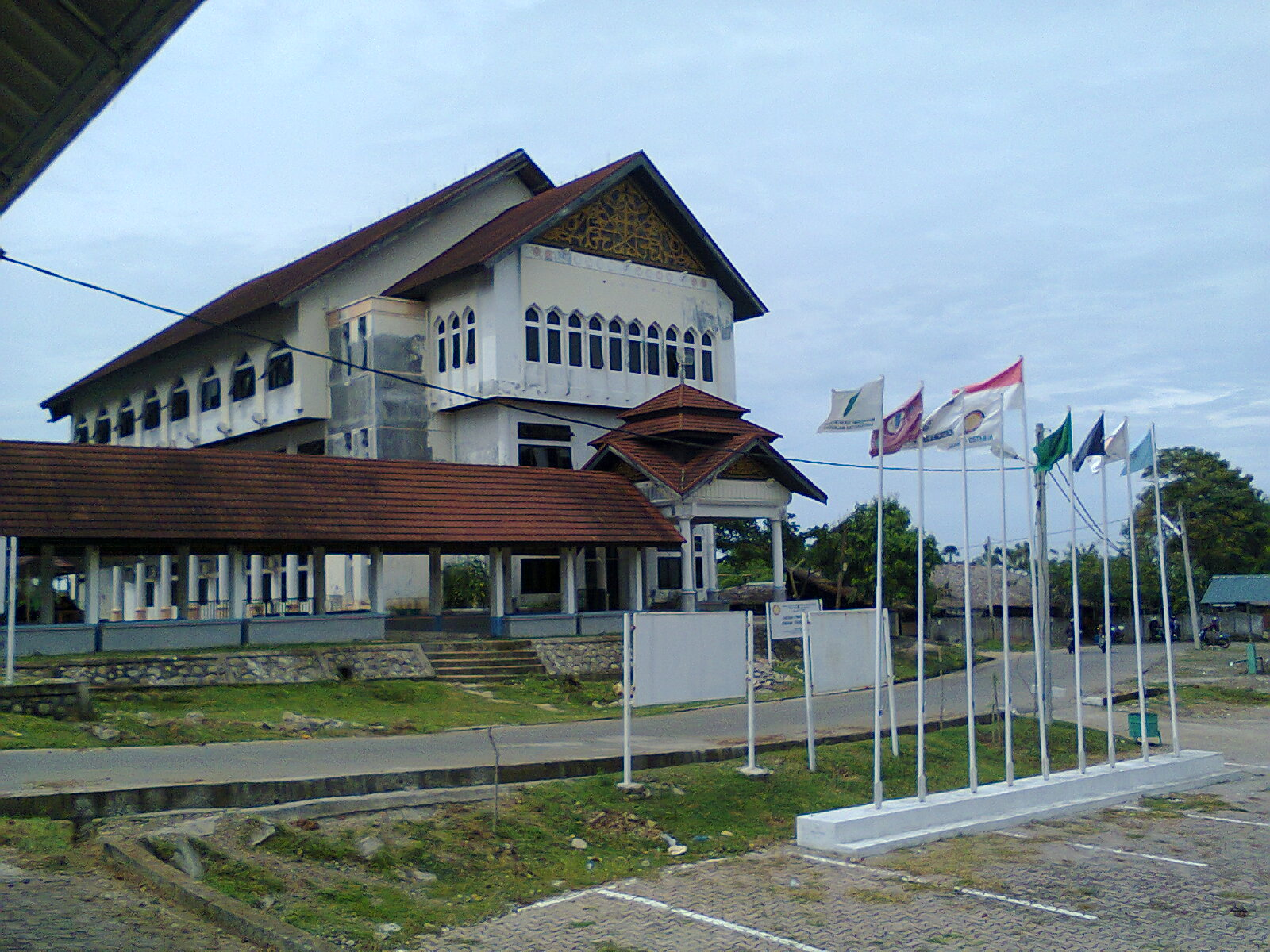 Salah satu Gedung Fakultas Teknik Unimal